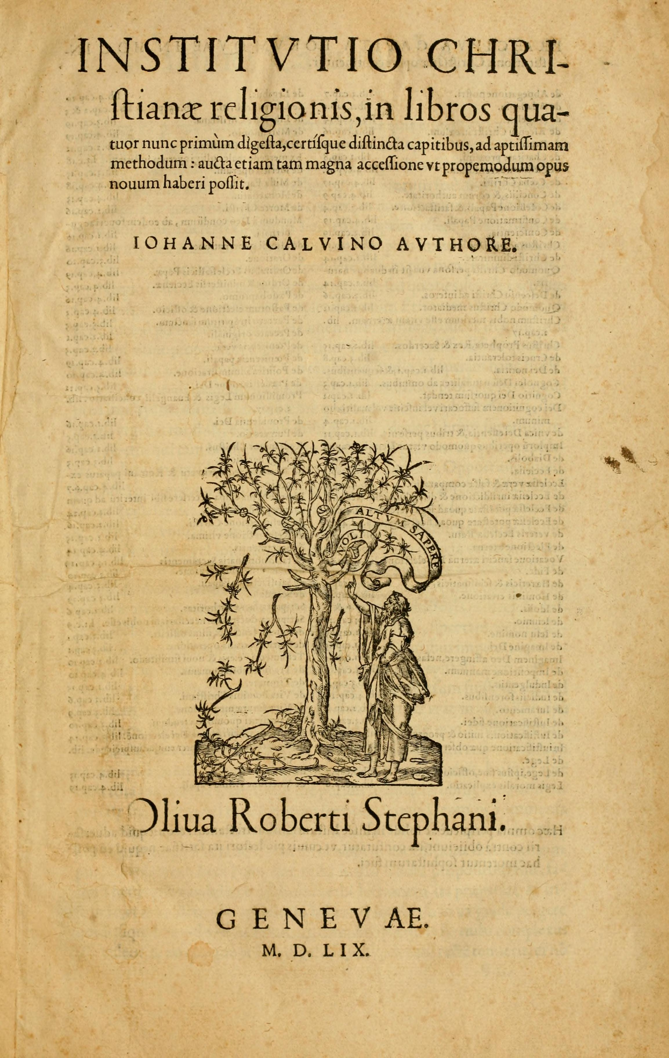 Institutio Christianae religionis (Institutes of Christian religion). Geneva: Robert Estienne, 1559. "This is the definitive and fourth edition of Calvin's compendium of reformed theology; the first edition was published in 1536. Calvin wrote the Institutes as an introductory textbook on the Protestant religion, revising the work several times over his lifetime."